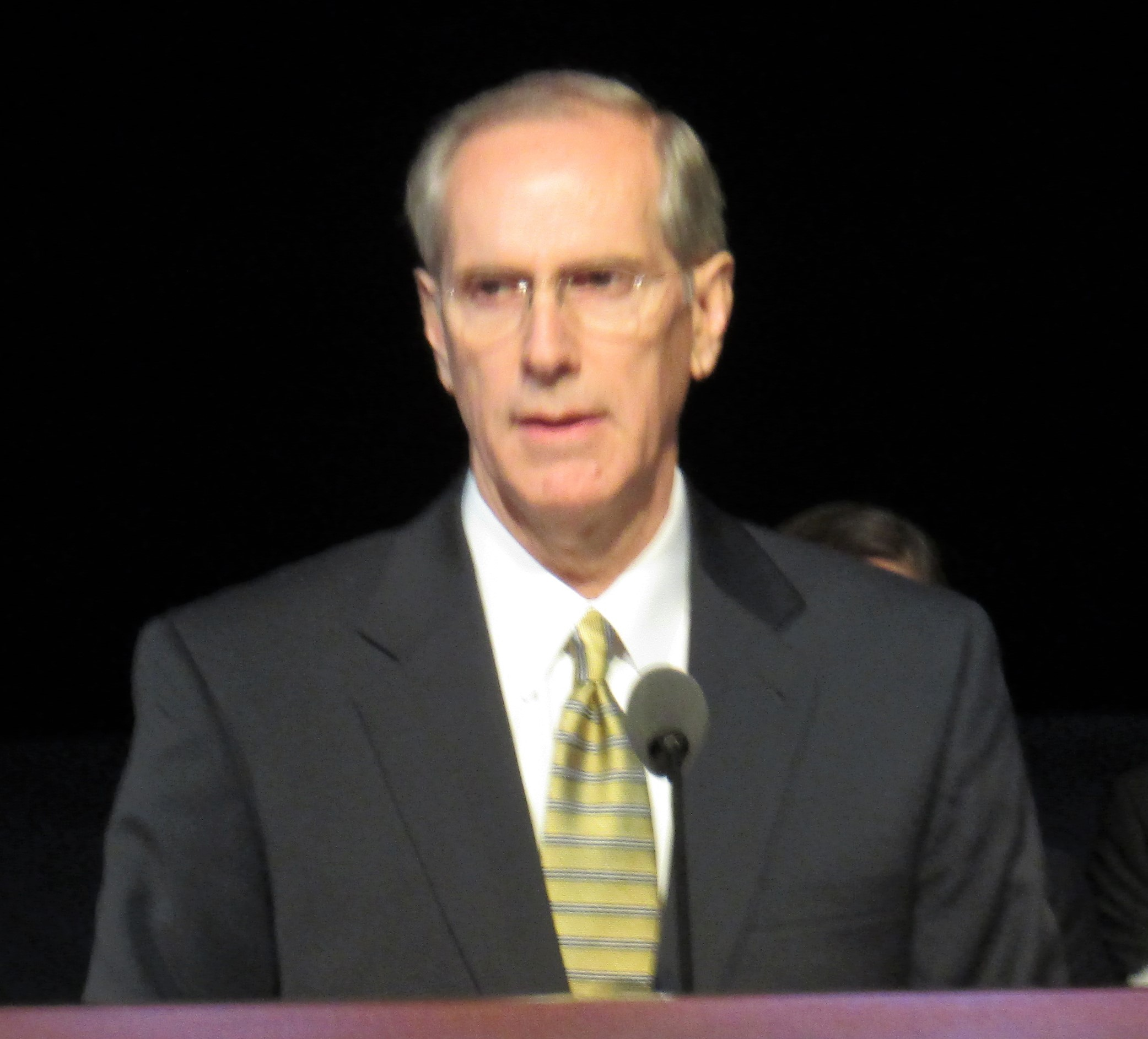 Brent W. Webb introducing a speaker at a BYU Devotional.